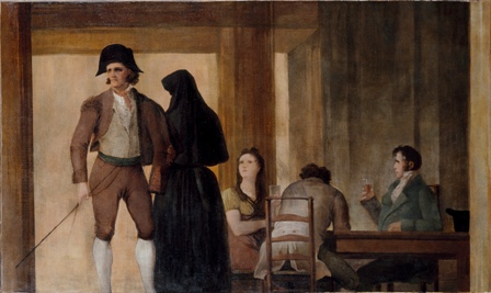 "People into the Café de Levante"; painting by Alenza to decorate the halls of Levante coffee in the street from the Prado of Madrid.